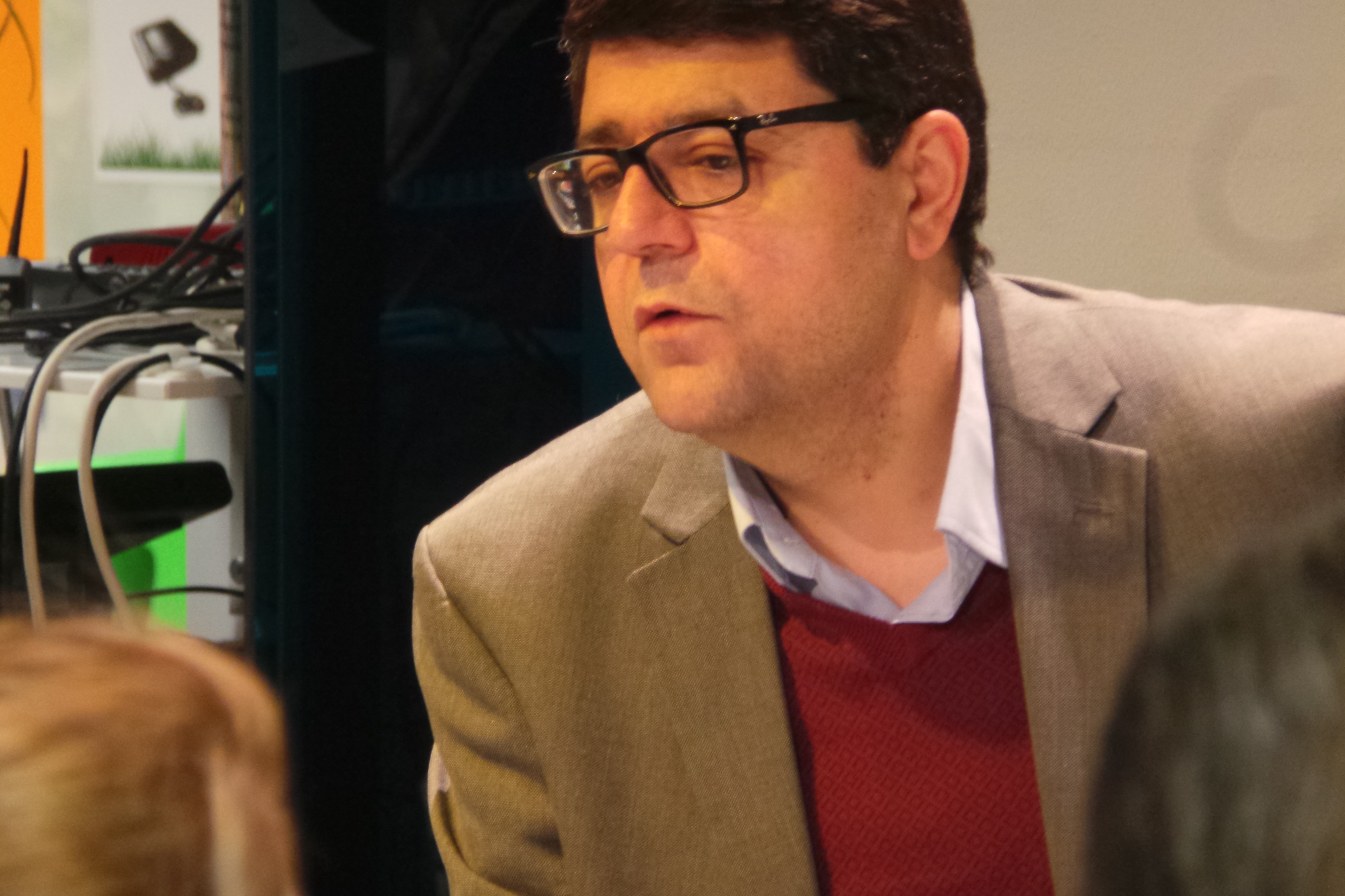 Iranian journalist and writer Jamshid Barzegar in Entresse library, Espoo, Finland.